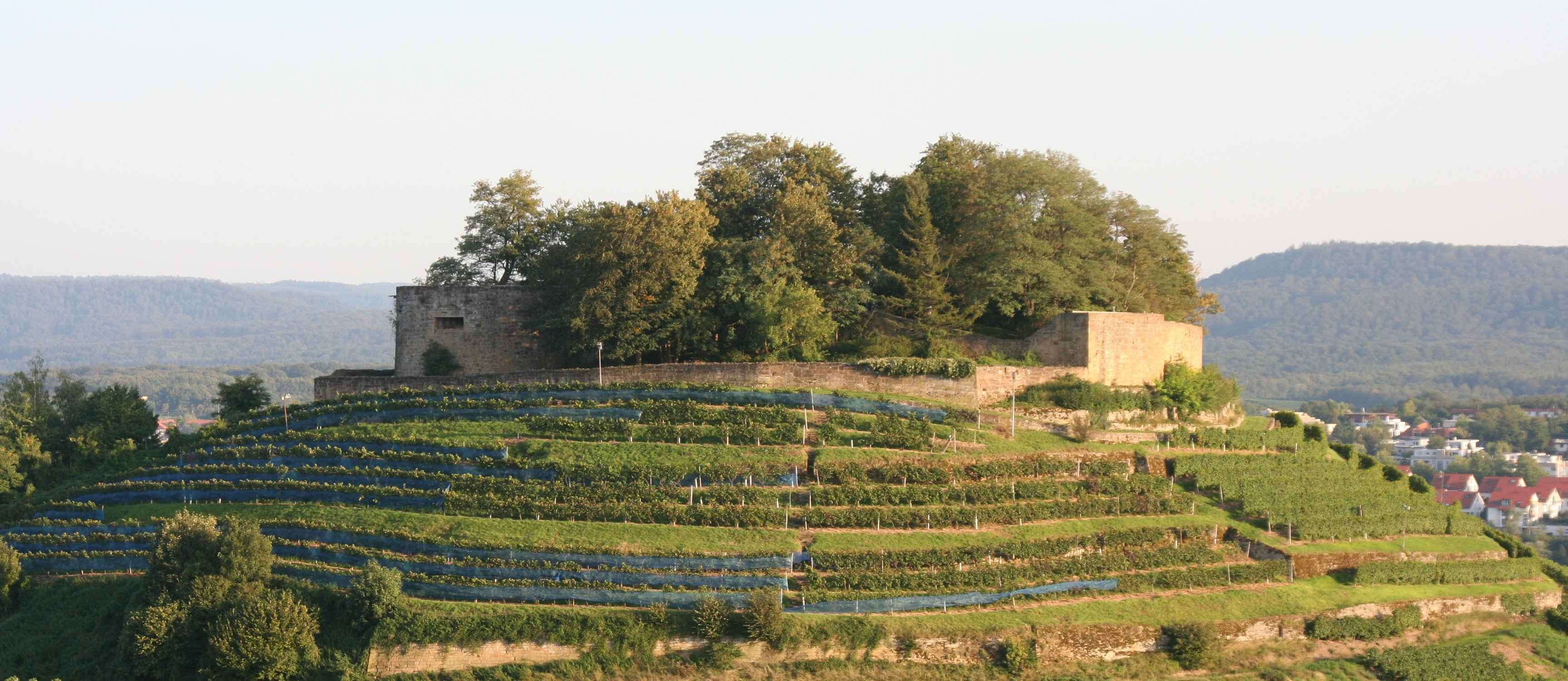 Burgruine Weibertreu from the West